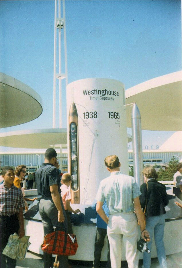 Westinghouse exhibit at the 1965 New York World's fair